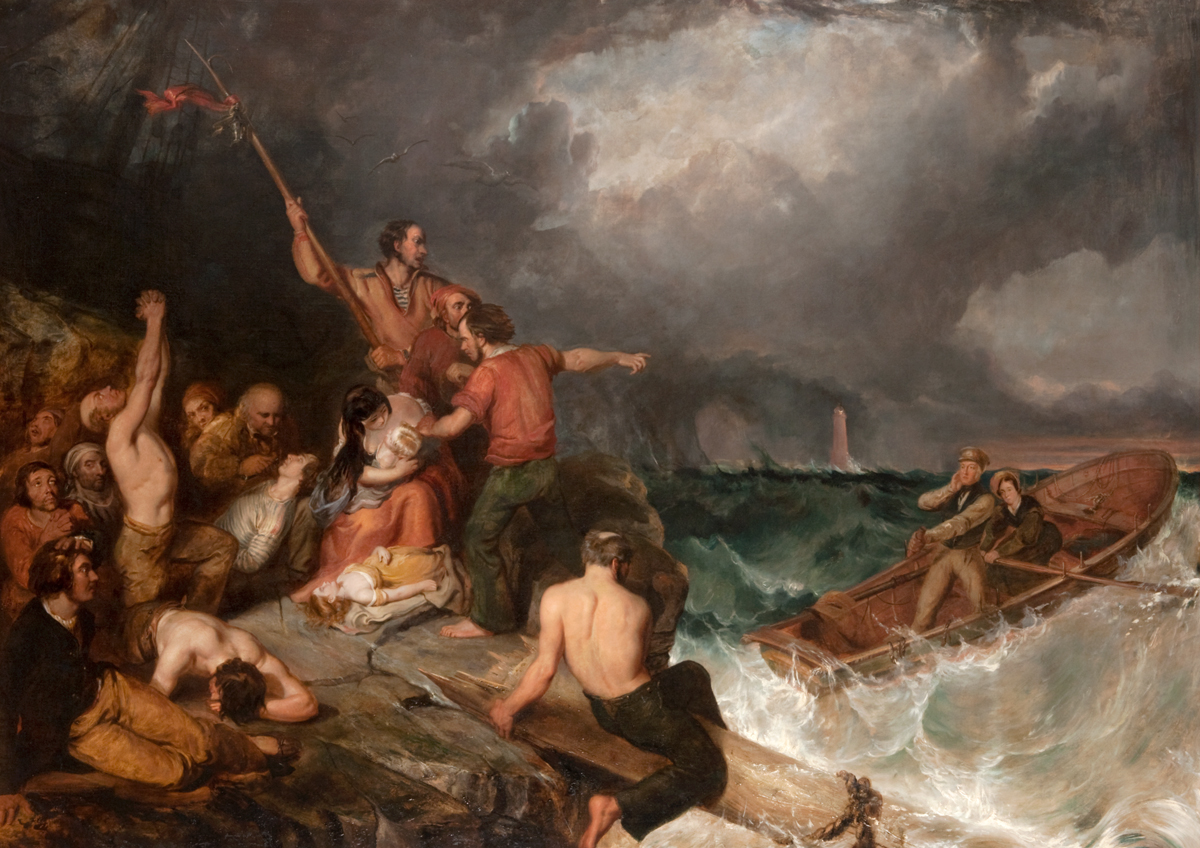 Grace Darling at the Forfarshire by Thomas Musgrave Joy (9 July, 1812 – 7 April, 1866) - a painter known principally for his portraits.